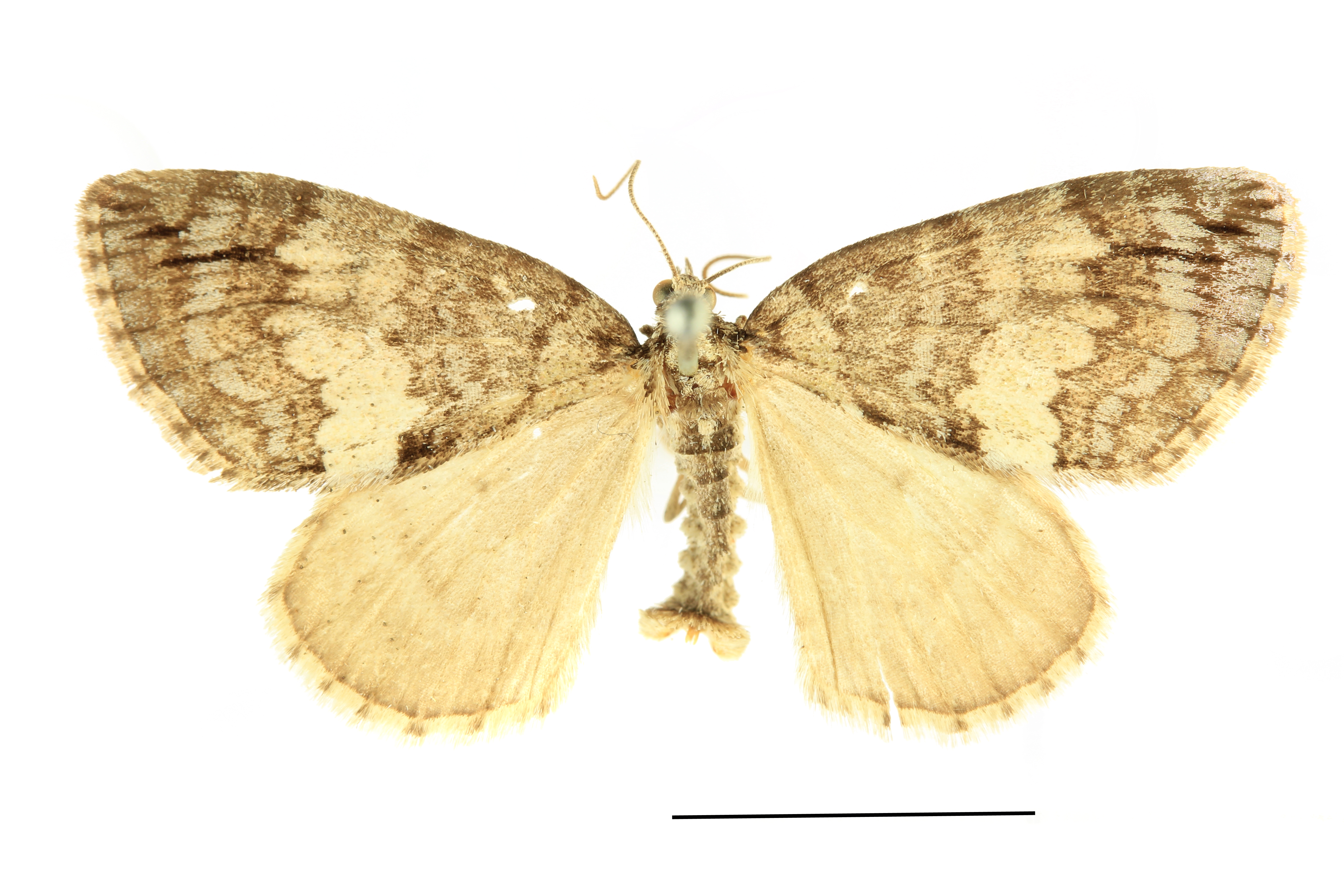 Hydriomena impluviata, insect collections SLU, Uppsala